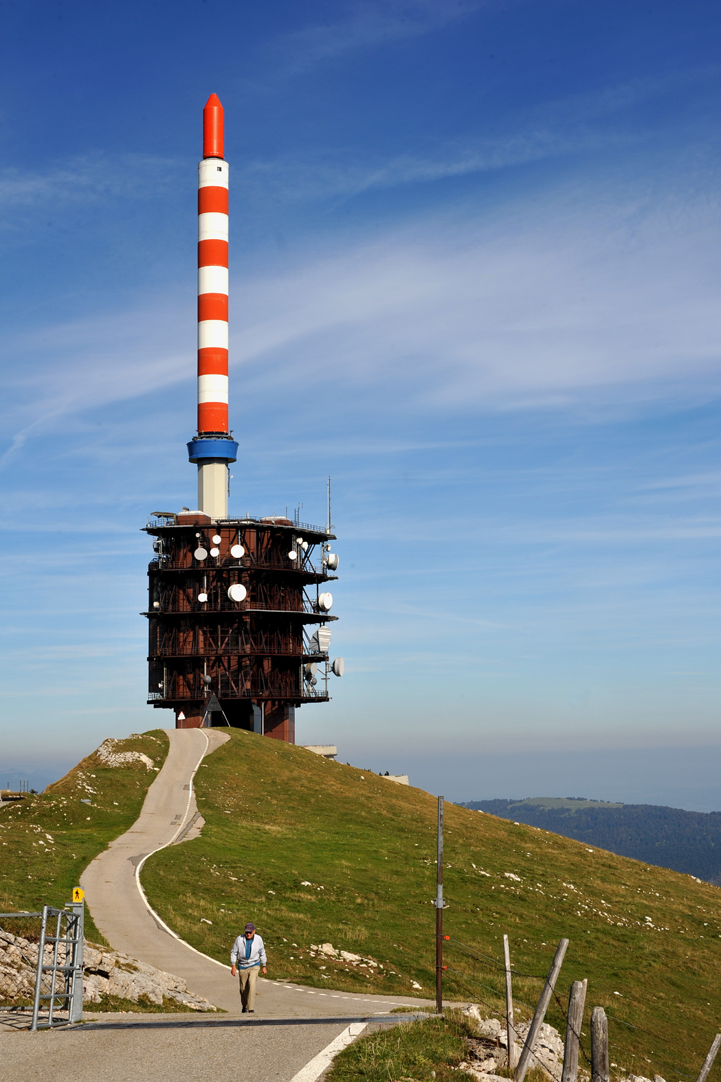 Radio tower on the Chasseral; Berne, Switzerland.